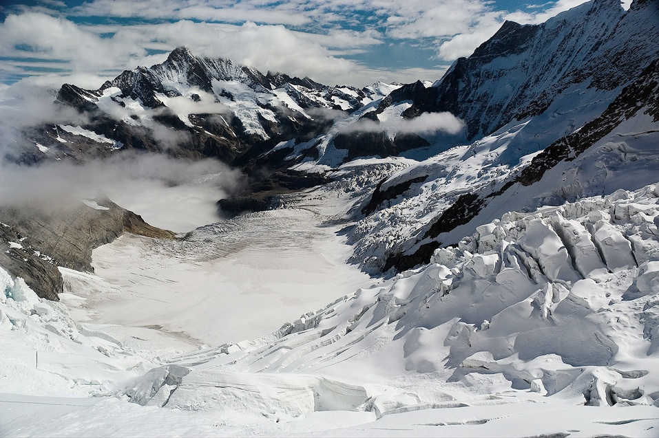 View from Eismeer train station, Bernese Alps, Switzerland